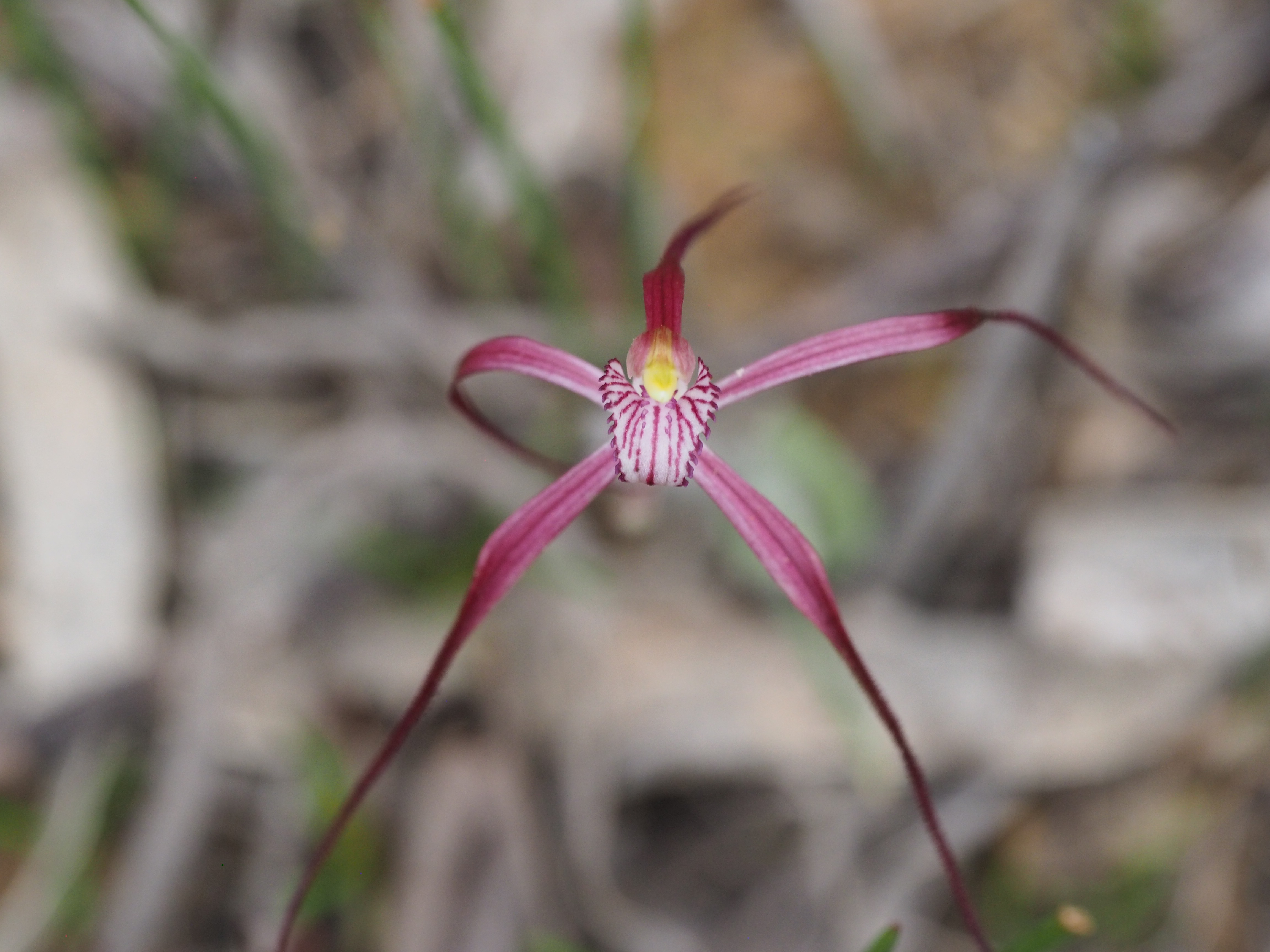 Caladenia occidentalis growing in Cockleshell Gully near Leeman